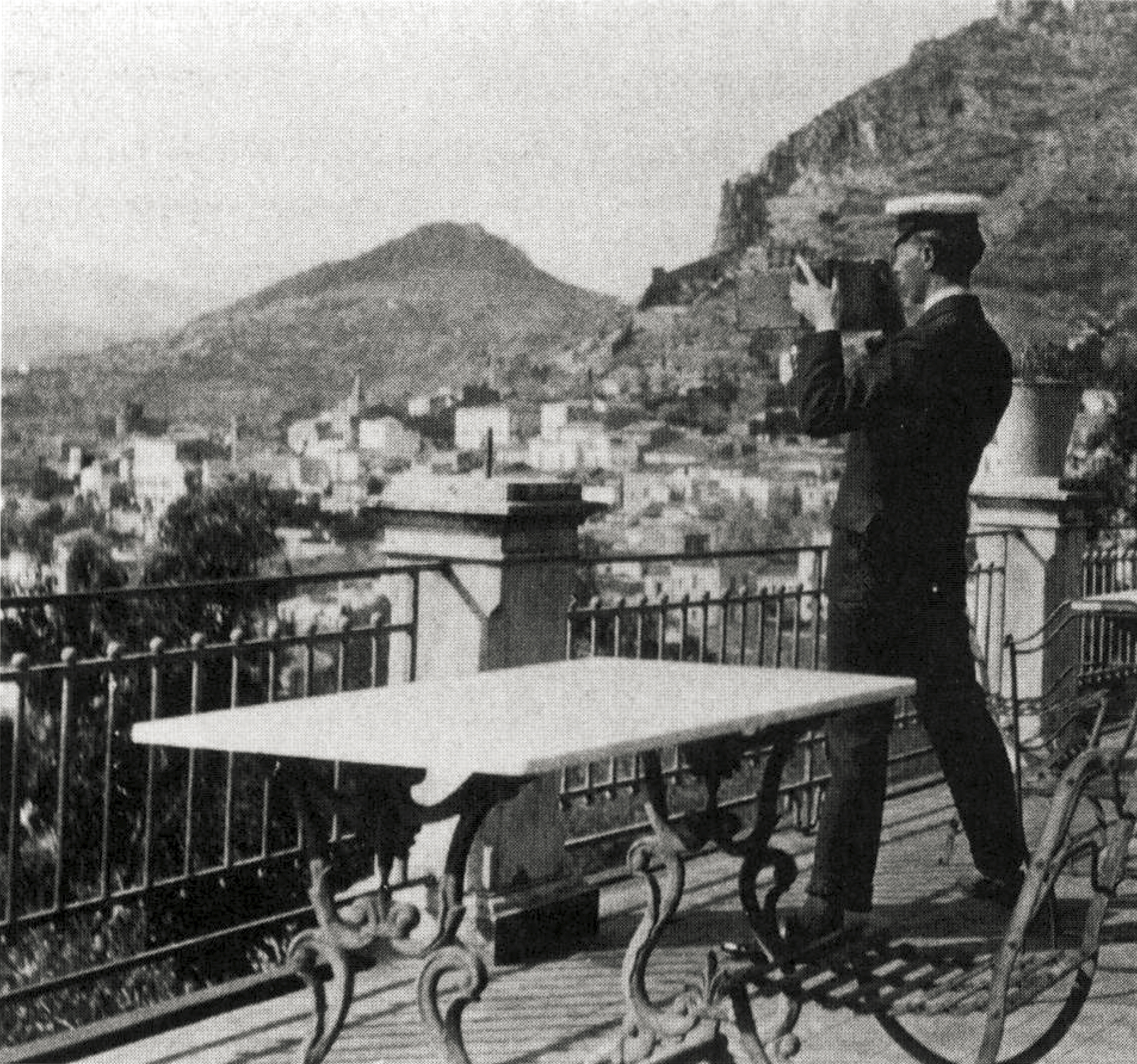 Photograph of Montagu Brownlow Parker in Jerusalem.